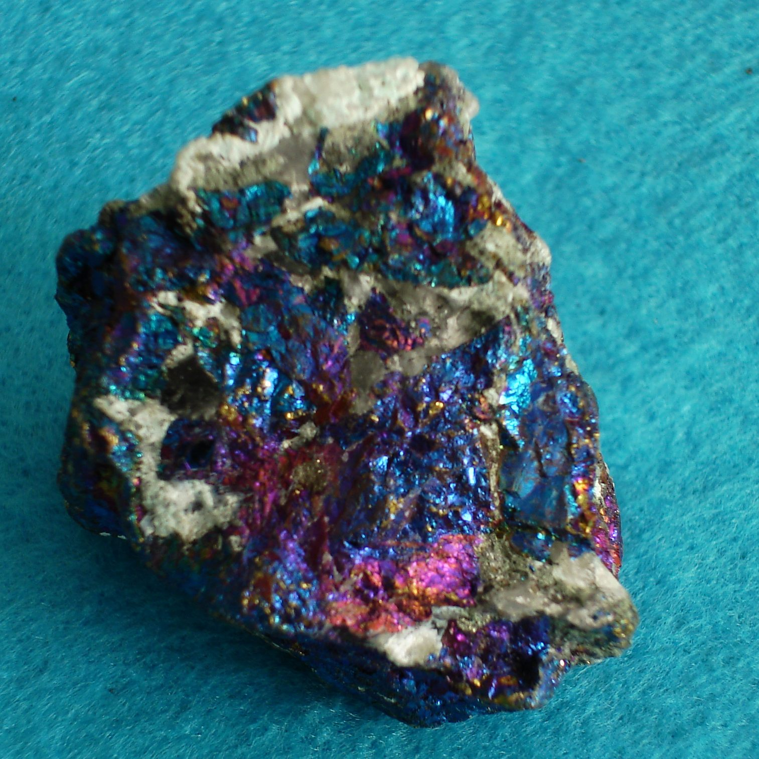 A 4 cm bornite aglomerate showing its tipical iridescence (a rainbow like luster)